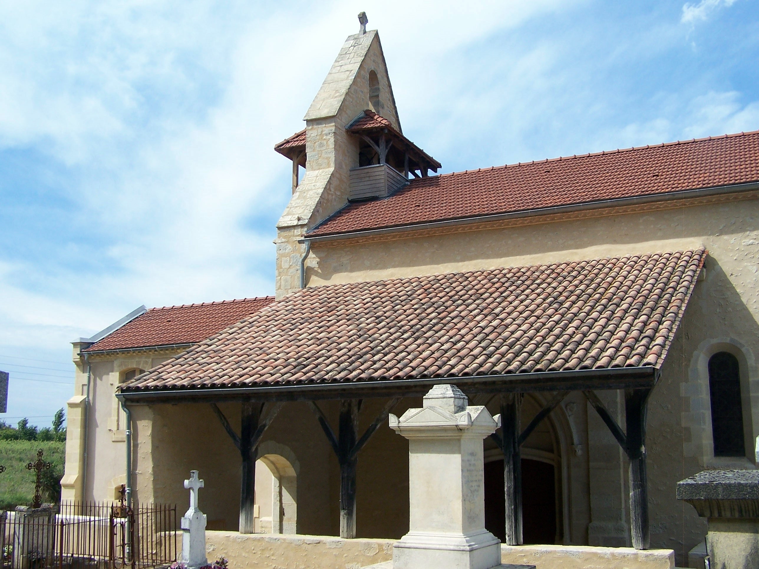 Church of Loupiac-de-la-Réole (Gironde, France)